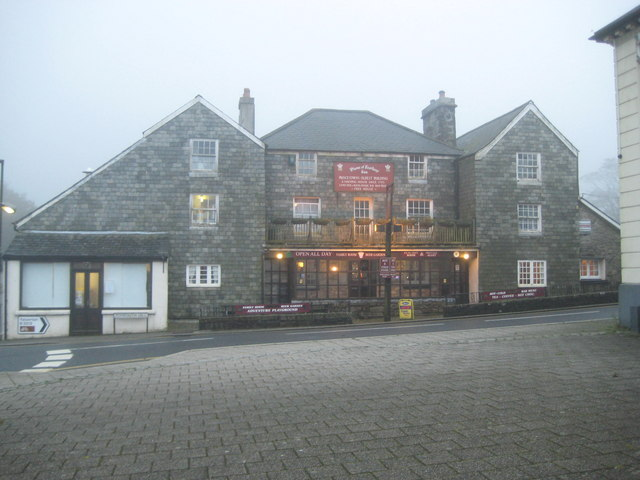 Princetown: Plume of Feathers Inn This is Princetown's oldest building, dating from 1785, and predating the first Dartmoor prison by some 20 years. It was originally constructed to house workmen building Tor Royal, the nearby estate of Sir Thomas Tyrwhitt, and later served as a coaching inn. It was originally called the Princes Arms in recognition of the ownership of the land by the Duchy of Cornwall and hence the Prince of Wales. However at some stage it was renamed after the plume of feathers in the Prince's coat of arms.